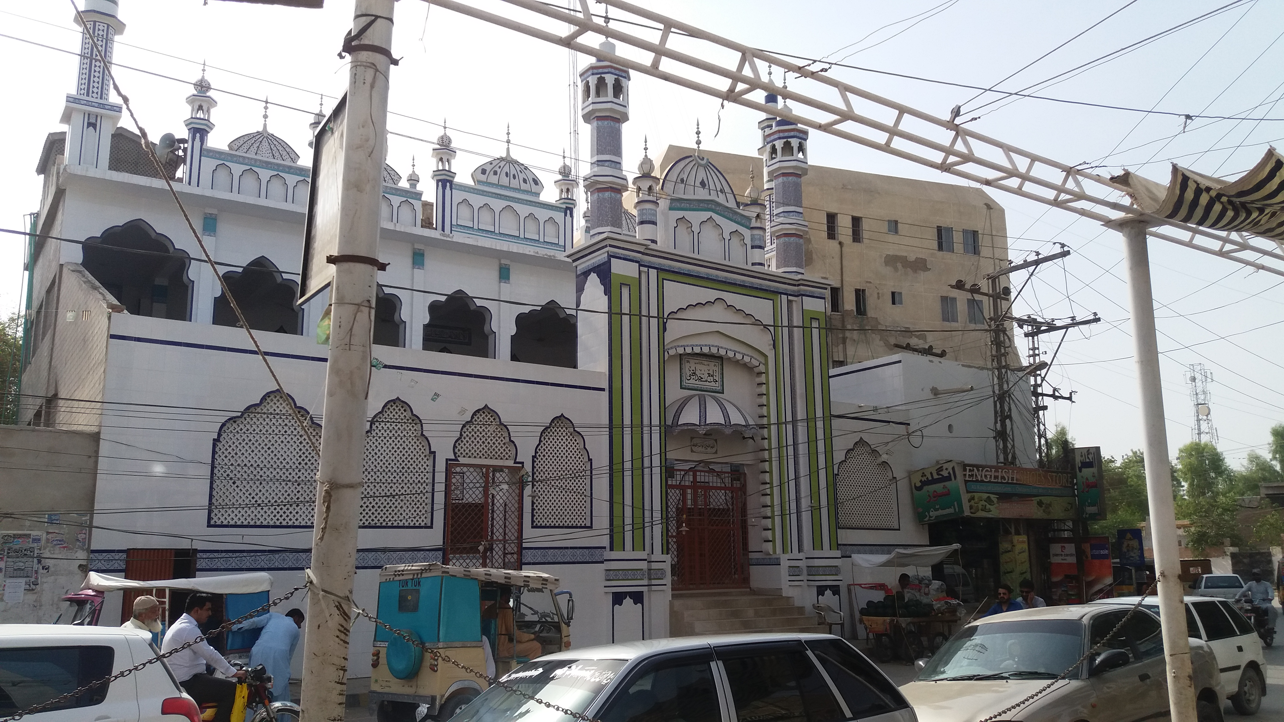 Mosque